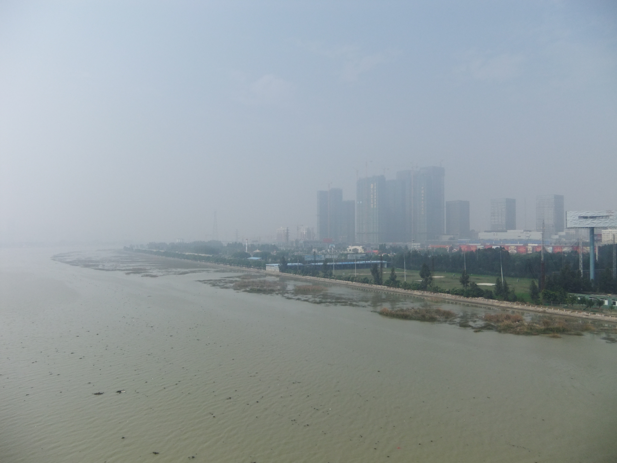 Fujian's Jin River, seen from Quanzhou's Zitong Bridge, looking upstream (i.e. more or less to the west or NW). The northern bank of the river is in Fengze District (part of Quanzhou's central urban area), the southern bank is in Jinjiang City.